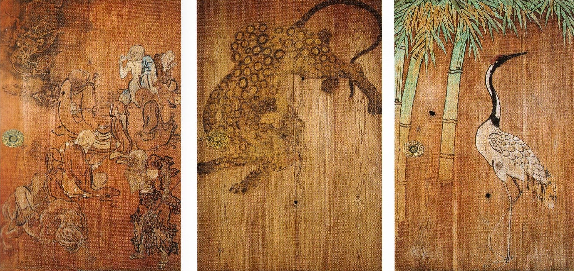 Three sliding doors, painted